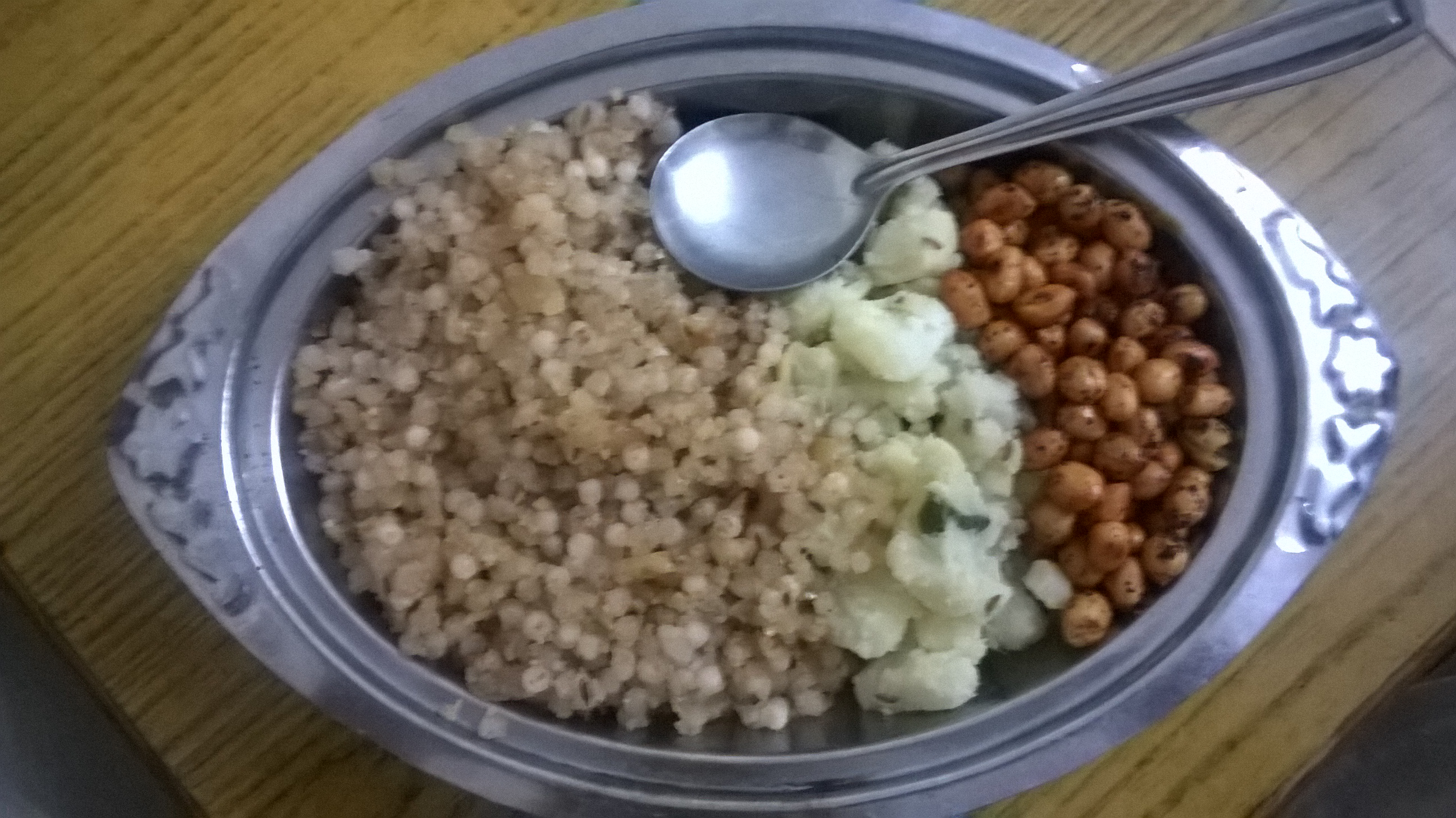 food to be eaten on fasts